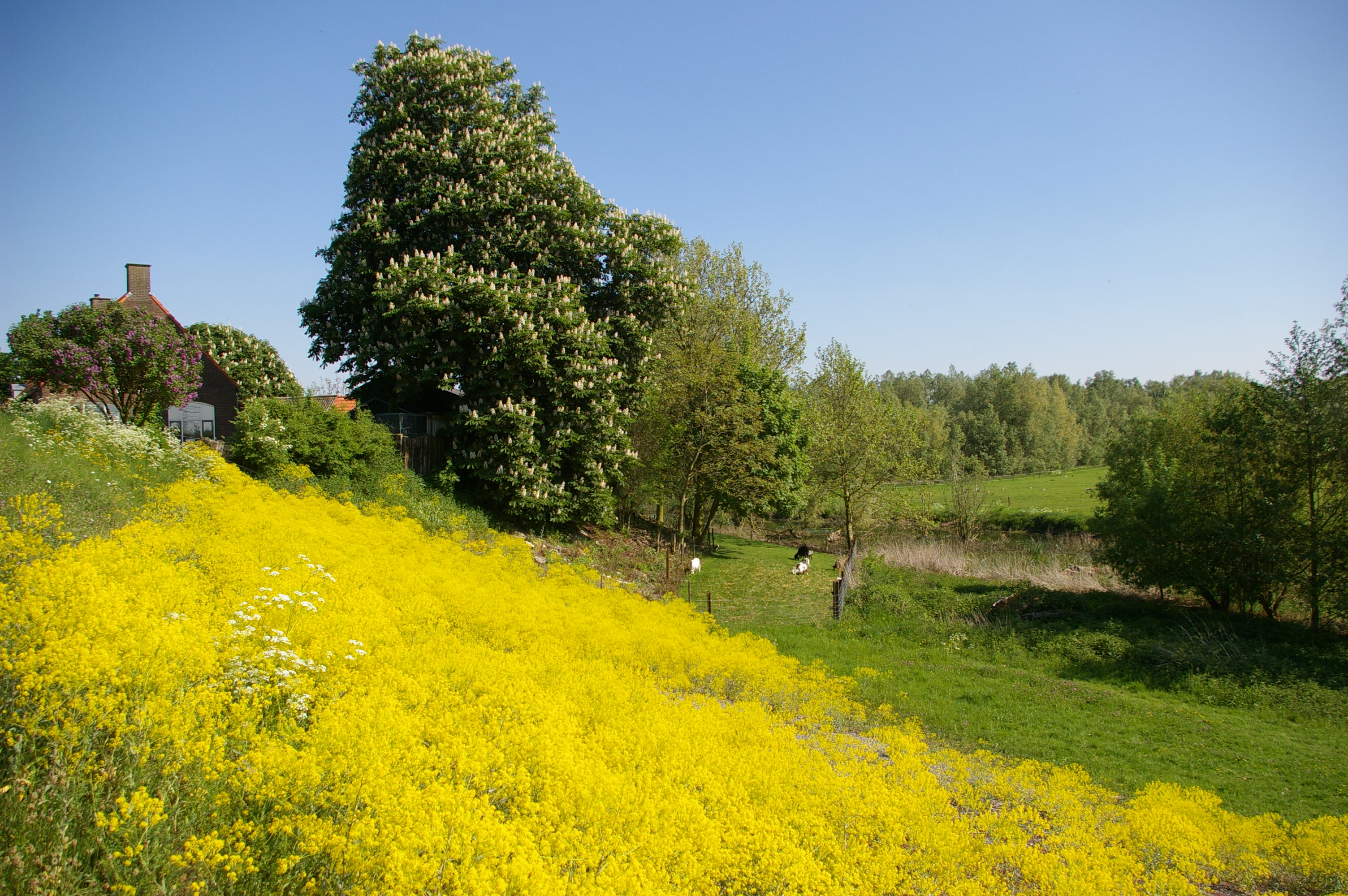 Dike near Bemmel, municipality of Lingewaard, near Nijmegen, the Netherlands. Just to show how nice Dutch dikes can be in the spring.